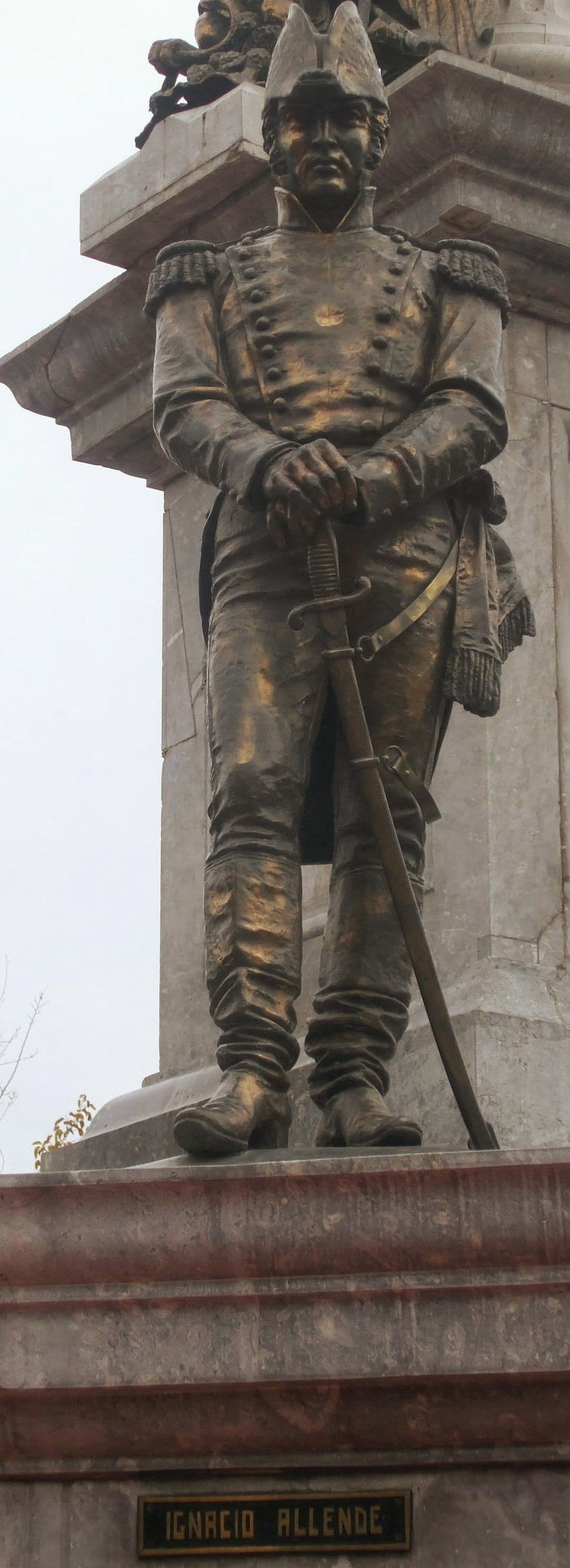 Allende Statue, Hidalgo Monument, Chihuahua, Mexico